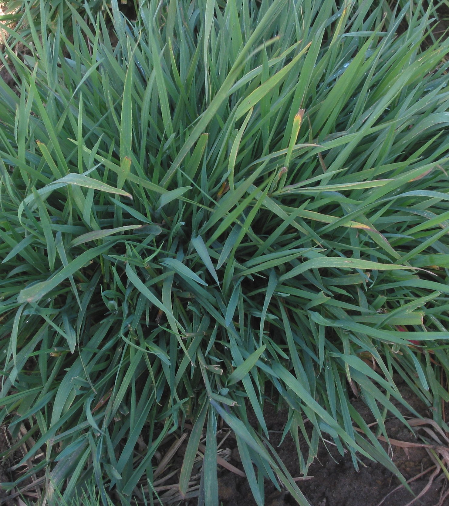 A 'tuft' of Agrostis gigantea grass